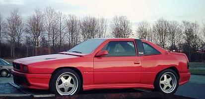 1995 Maserati Shamal Photographed in Copenhagen, Denmark.